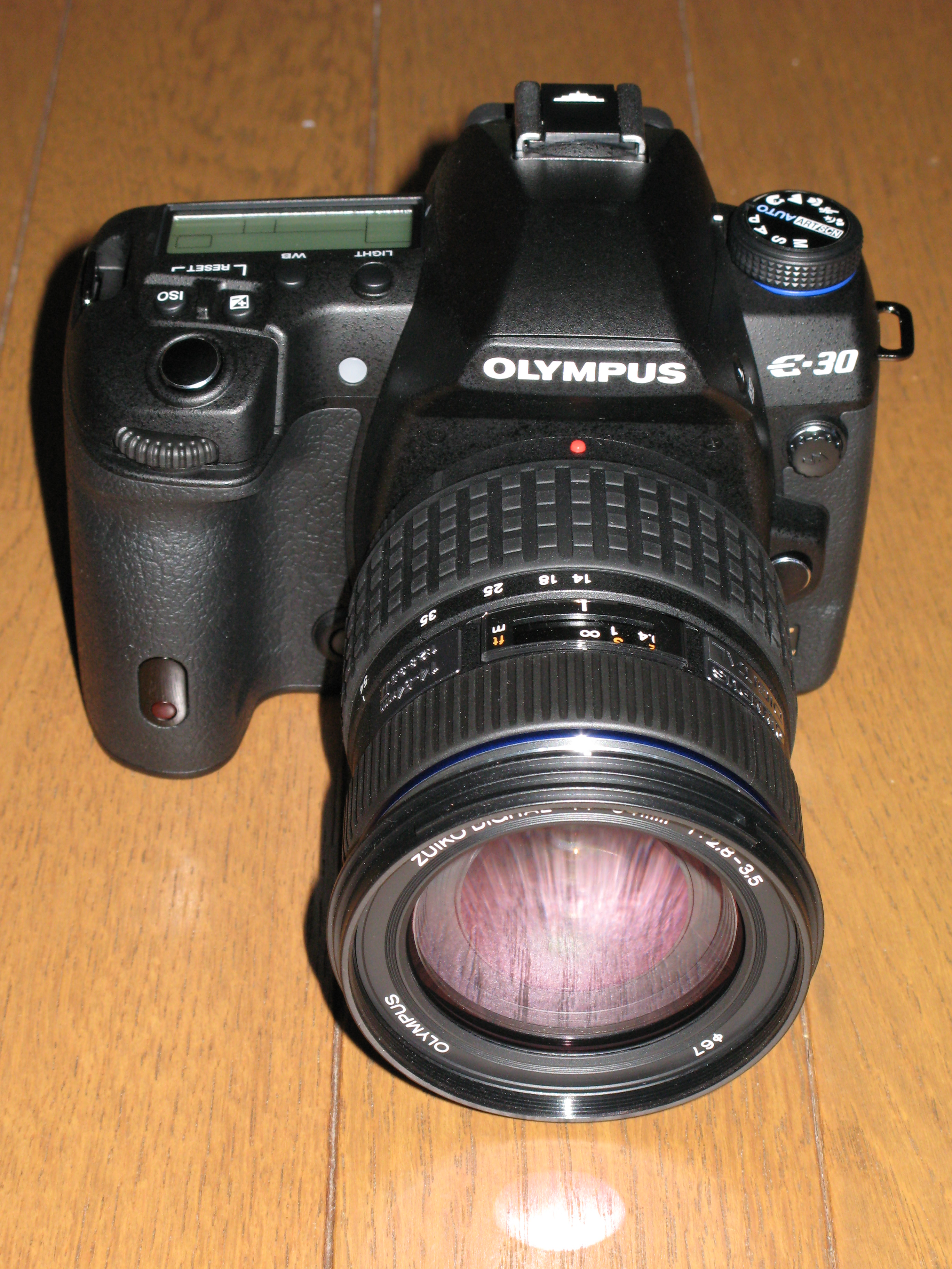 OLYMPUS E-30 with ZD 14-54mm F2.8-3.5II